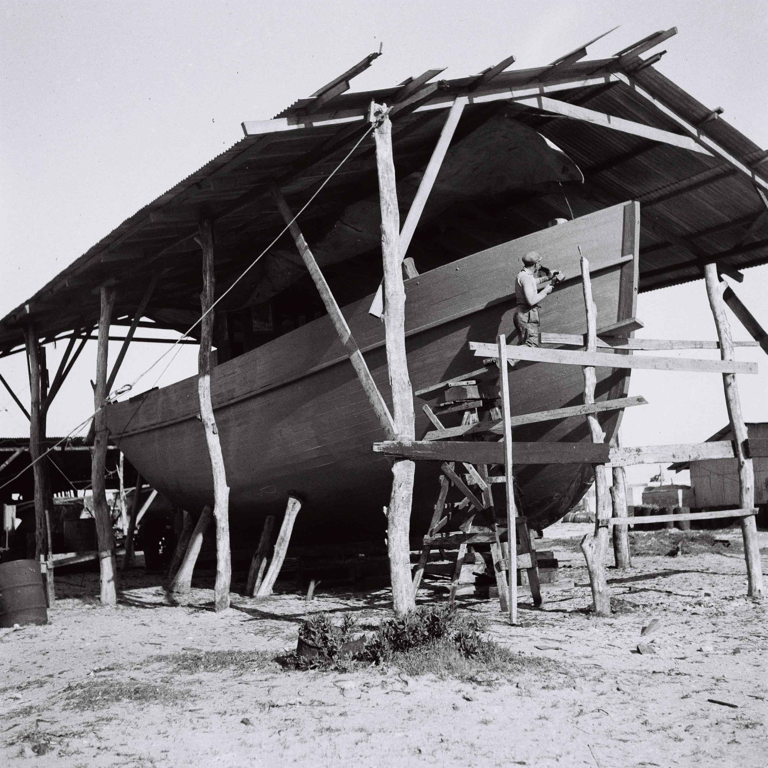 A FISHING BOAT UNDER CONSTRUCTION FOR THE "NACHSHON" COMPANY IN HAIFA PORT. בניית סירת דייג של חברת "נחשון" בנמל חיפה.